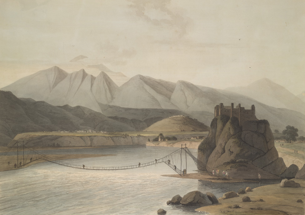 Rope bridge across, Alaknanda River, Srinagar, Garhwal, 1784-94, when Thomas and William Daniell reached Srinagar, the then Raja of Srinagar was involved in a war with his brother, they were advised to leave the town, which they did using the rope bridge across the river which was in spate, probably due to the Rainy season in the area, which July-September. Srinagar, Uttarakhand, India.